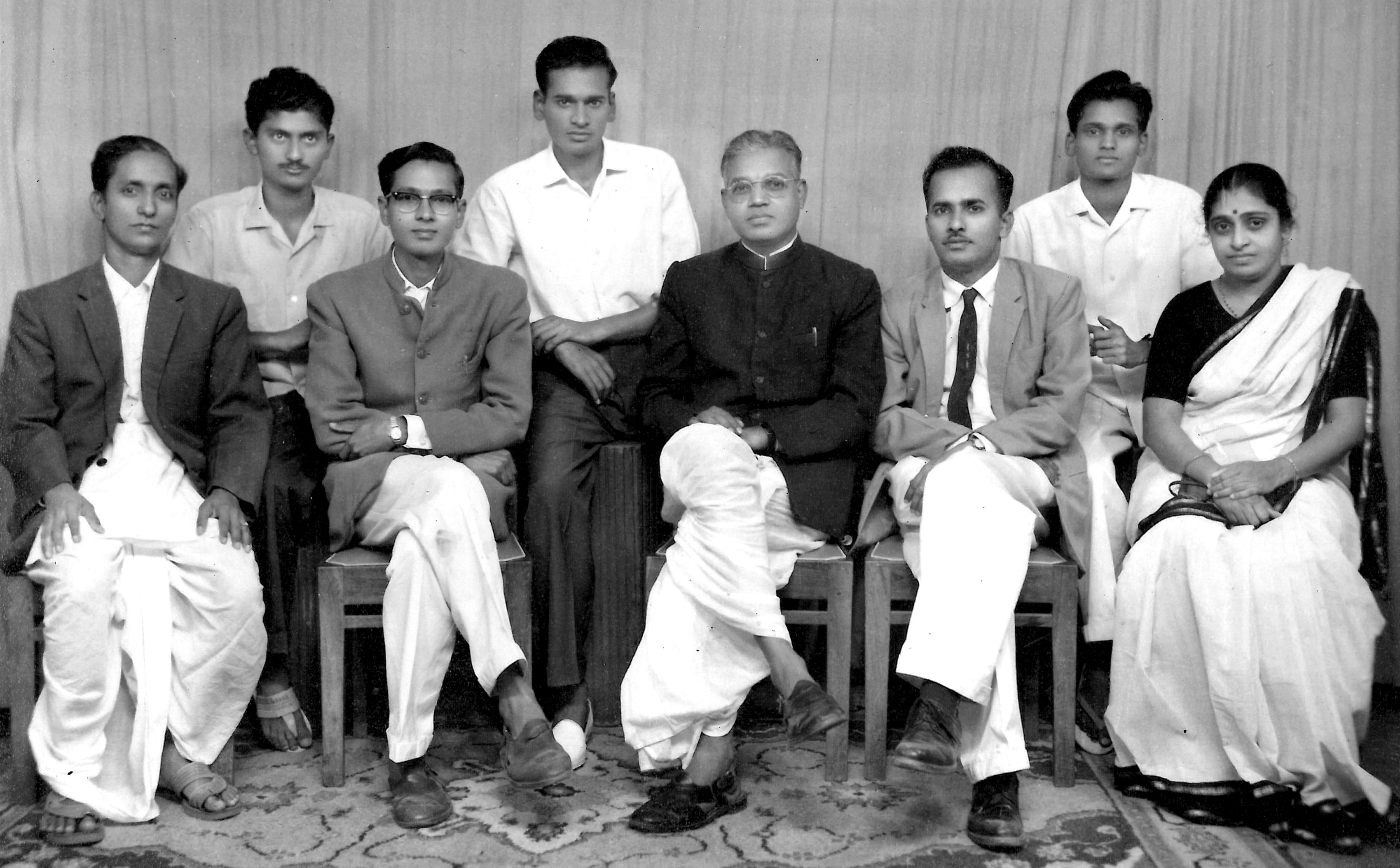 T. V. Venkatachala Sastry with G. S. Shivarudrappa while at Kannada Adhyayana Samsthe, University of Mysore (1952)